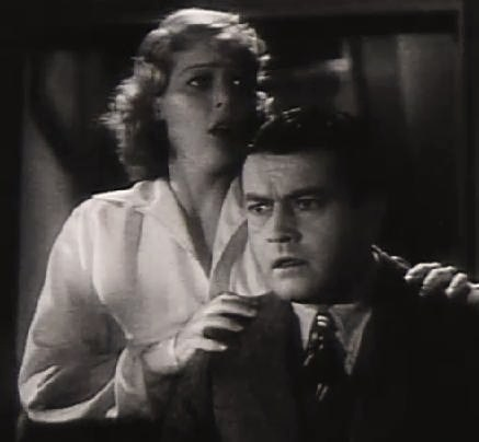 Loretta Young and Richard Barthelmess in Heroes for Sale (1933) - trailer (cropped screenshot)